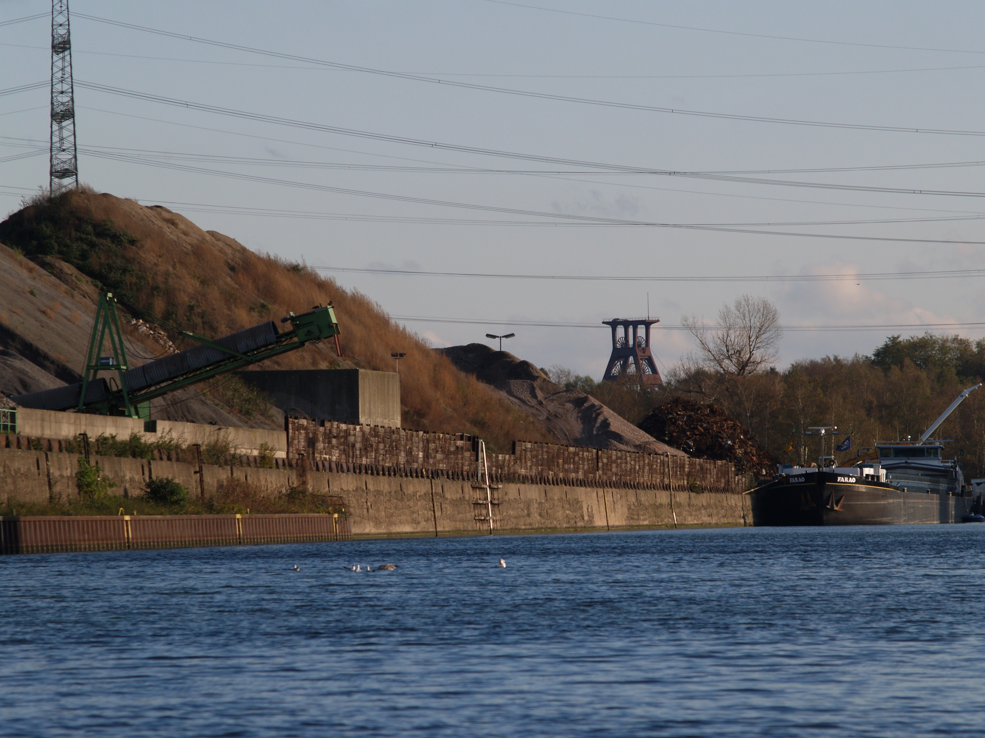 Port Grimberg at Rhein-Herne-Kanal